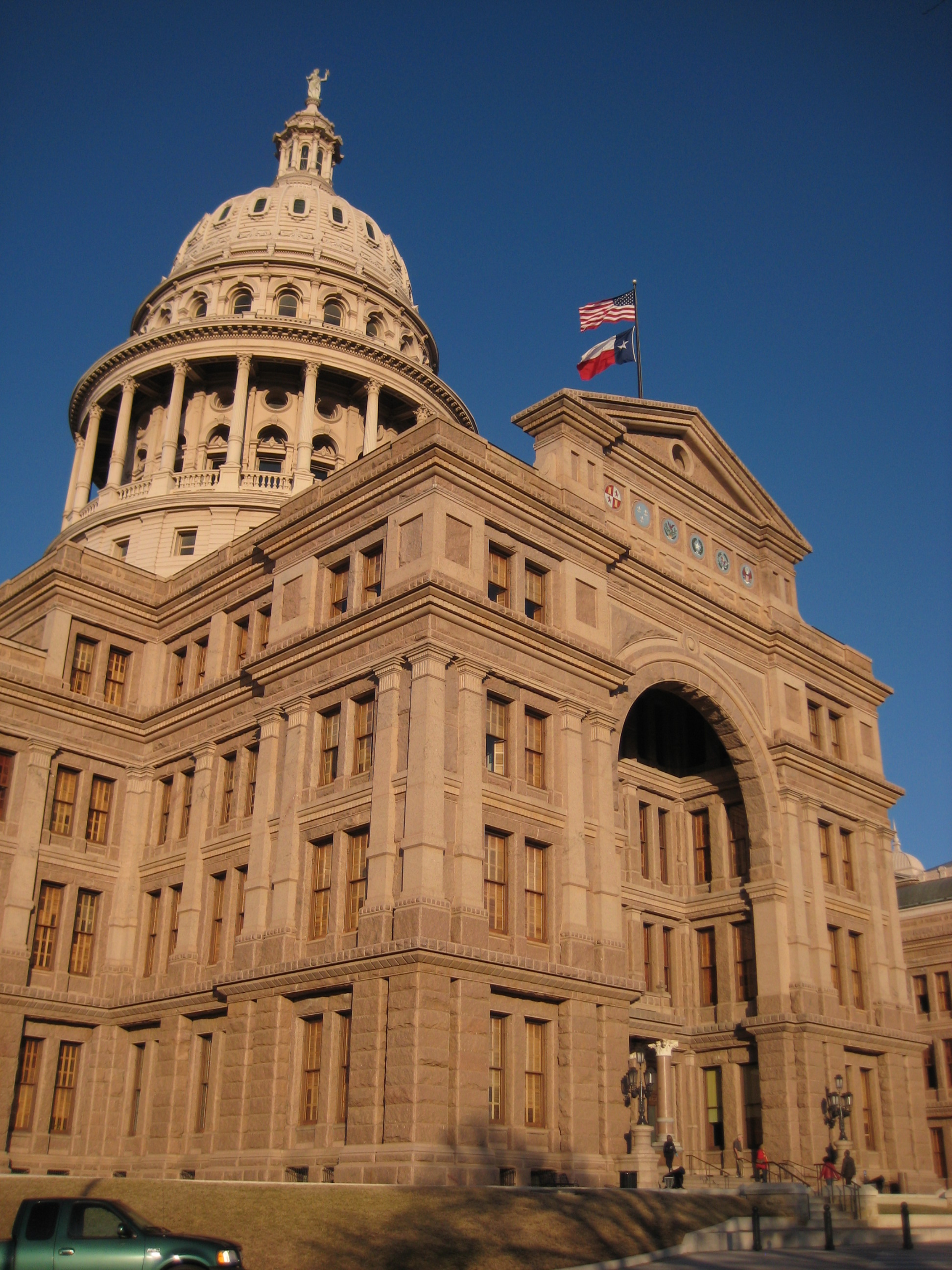 Texas State Capitol